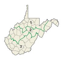 Image adapted from US fed gov't source Category:Congressional districts of West Virginia